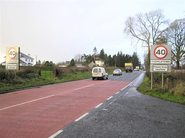 Welcome to Fivemiletown. Please drive carefully!